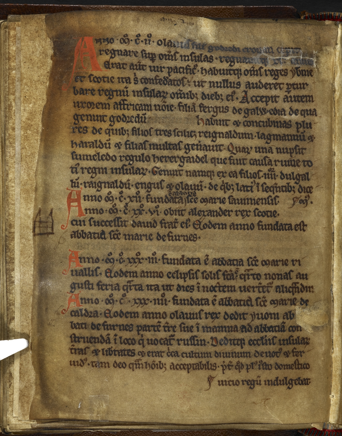 Folio from Cronica regum Mannie et insularum [Chronicle of the Kings of Mann and the Isles], AD 1000–1316. BL Cotton MS Julius A vii, f. 35v. This page depicts the 1130s, with a marginal illustration depicting the foundation of Rushen Abbey. Held and digitised by the British Library.